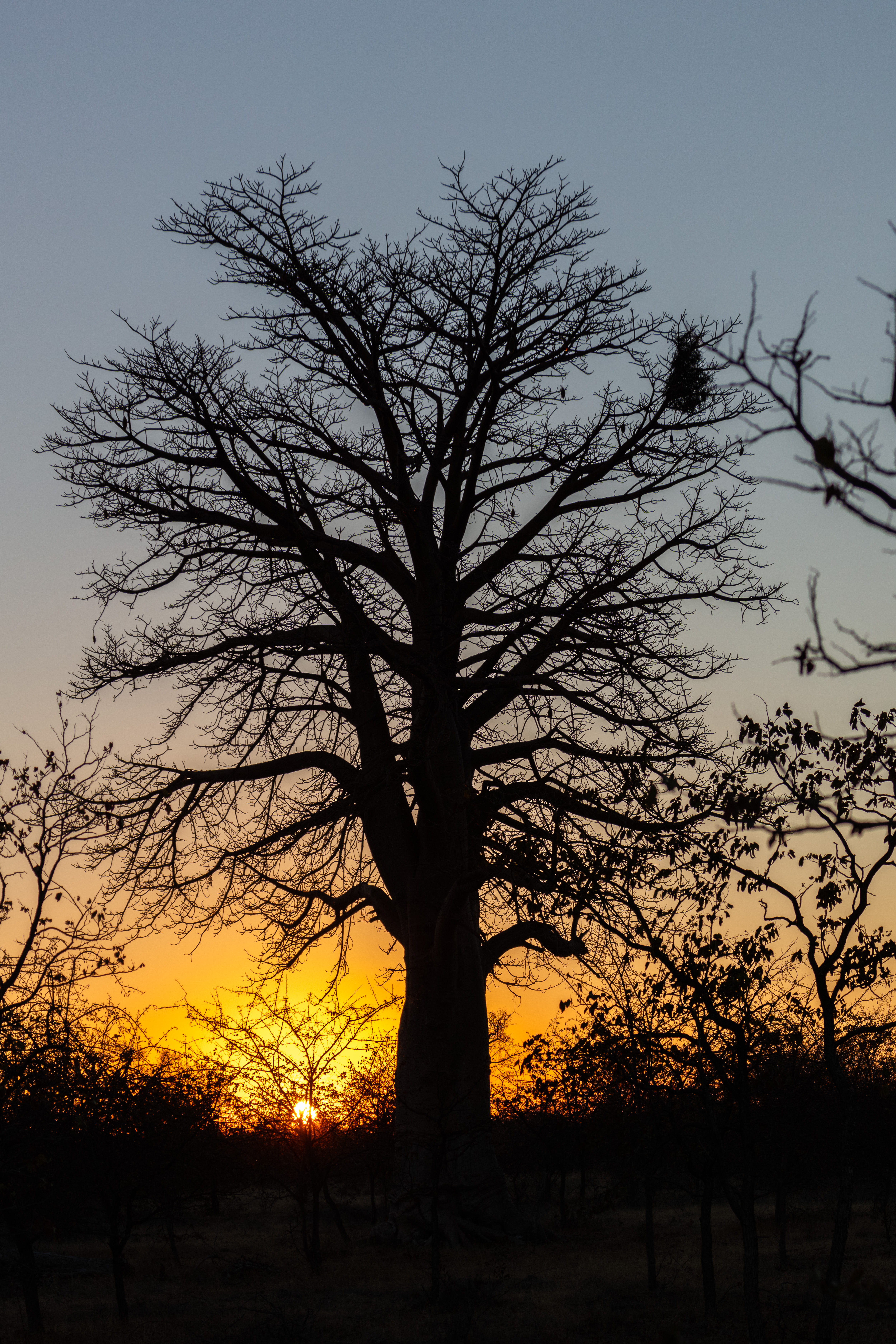 Baobab (Adansonia digitata), Makgadikgadi Pans National Park, Botswana